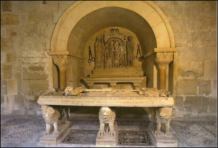 St. Dominic of Silos' cenotaph and shrine, at Santo Domingo de Silos monastery, Burgos